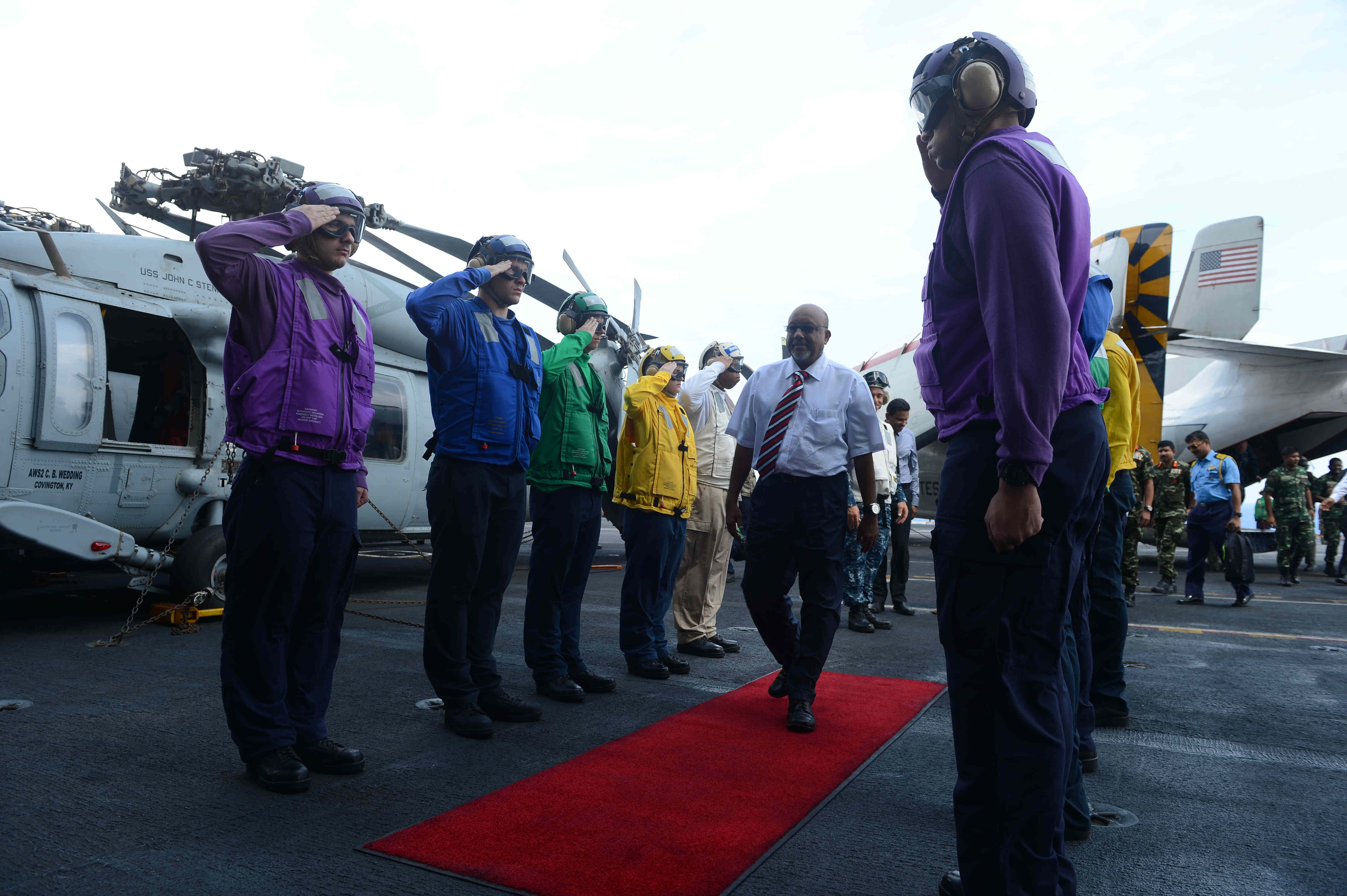 Side boys salute Vice President of the Republic of the Maldives Mohamed Waheed Deen on the flight deck aboard the aircraft carrier USS John C. Stennis. John C. Stennis is deployed to the U.S. 7th Fleet area of responsibility conducting maritime security operations, theater security cooperation efforts.